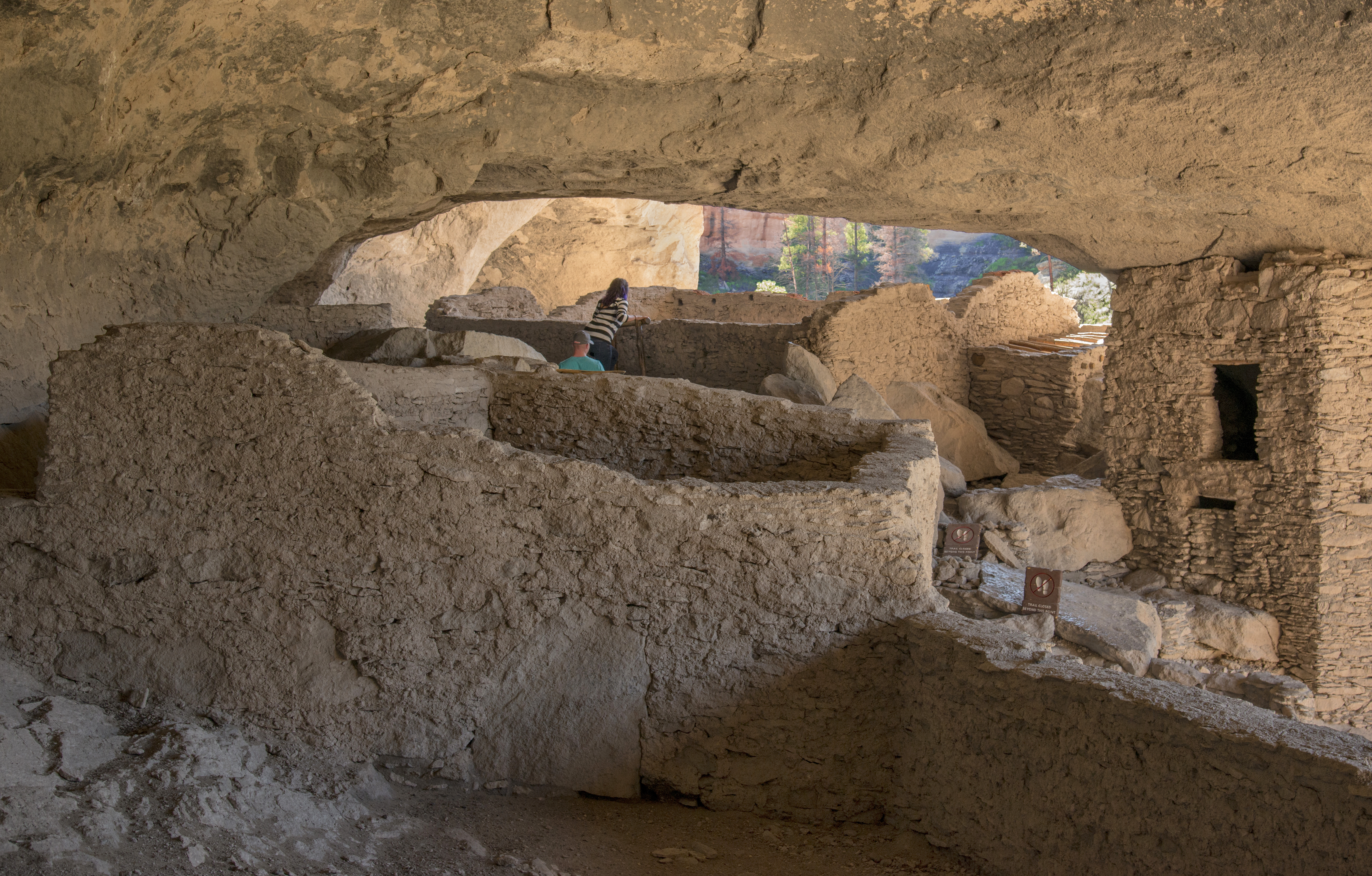 These Native American ruins are located about 45 twisty miles (at least a 2-hour drive) north of Silver City, NM, in the Gila mountains. There are several adjacent caves located along a 1/2 mile foot path from the parking area. The ruins were carefully restored and are well-maintained. The path is gated off at night, so you won't see any sunrise or sunset shots. I got there just at the 9 am opening so as to get some images without a lot of people in them. I shot the couple here for scale. As I was leaving the parking lot was filling with tour groups. It was Labor Day weekend, after all. BTW, there are a couple of nice National Forest campgrounds just a few miles outside the monument gate, as well as plenty of camping space on the grounds. I spent the night at one of the outside campgrounds.